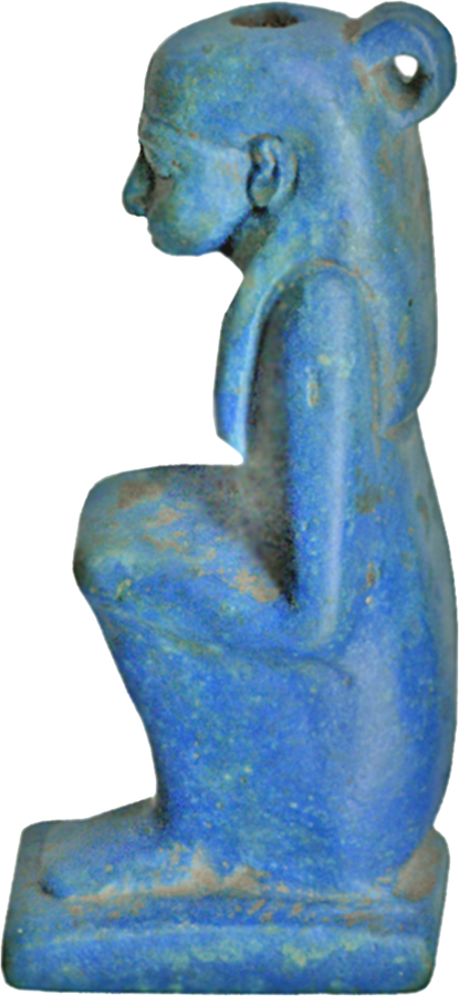 The amulet made of a bright blue glass-like faience (?) was made in a mold with some later working. It represents Maat, the personification of Truth, as a woman seated with knees drawn up. There is a hold in the head to attach an ostrich feather, the hieroglyph for her name. A loop projects from the back of her head for suspension.